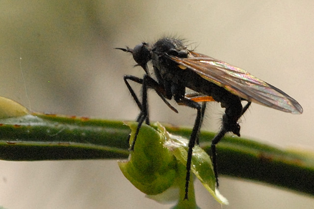 Empis borealis from Commanster, Belgian High Ardennes .